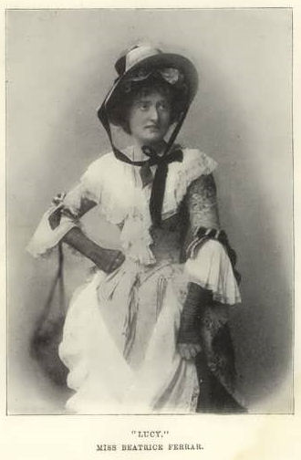 Beatrice Ferrar as Lucy in a revival of 'The Rivals' at the Haymarket Theatre - The Sketch 2 May 1900, p. 65